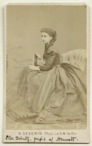 The german-russian composer Elisabeth von Schultz-Adaïewsky (1846-1926).